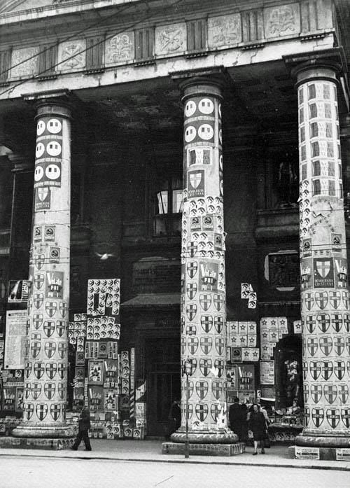 Trieste during election of 1949